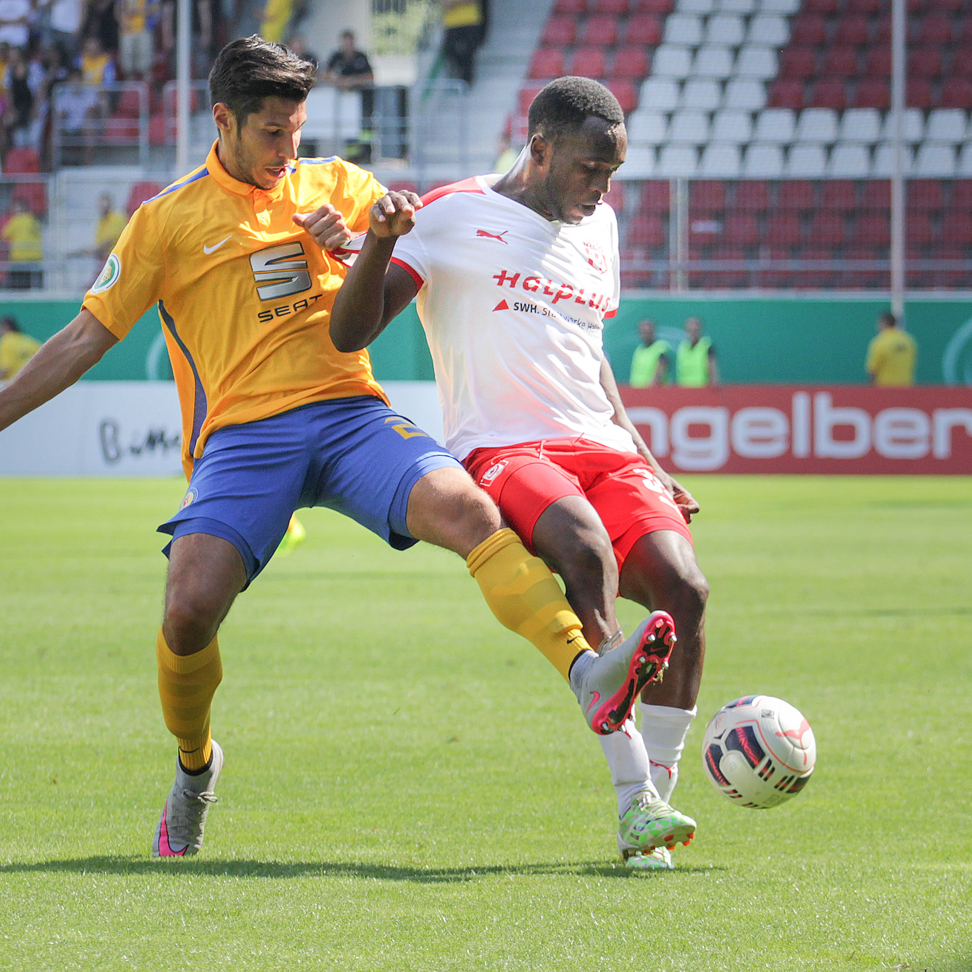 DFB Pokal 2015/2016 - 1. Runde (Hallescher FC - Eintracht Braunschweig)